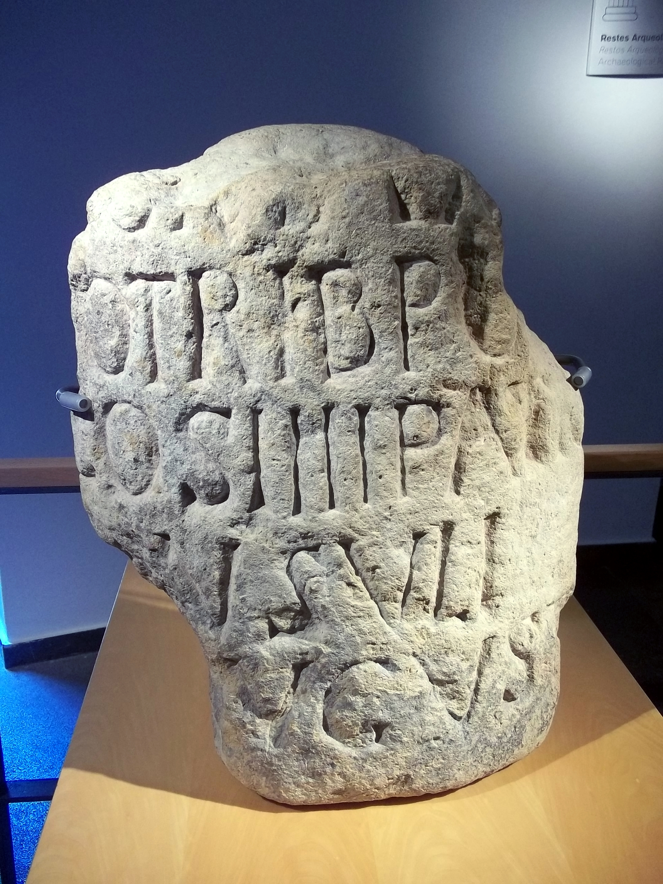 Roman remains at the Museum of the History of the City, Plaça del Rei, Barcelona.